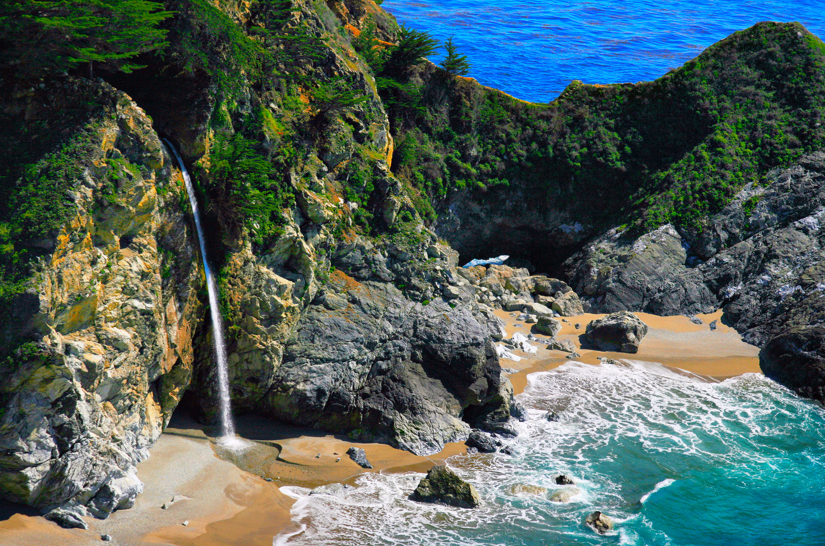 McWay Falls at Julia Pfeiffer Burns State Park